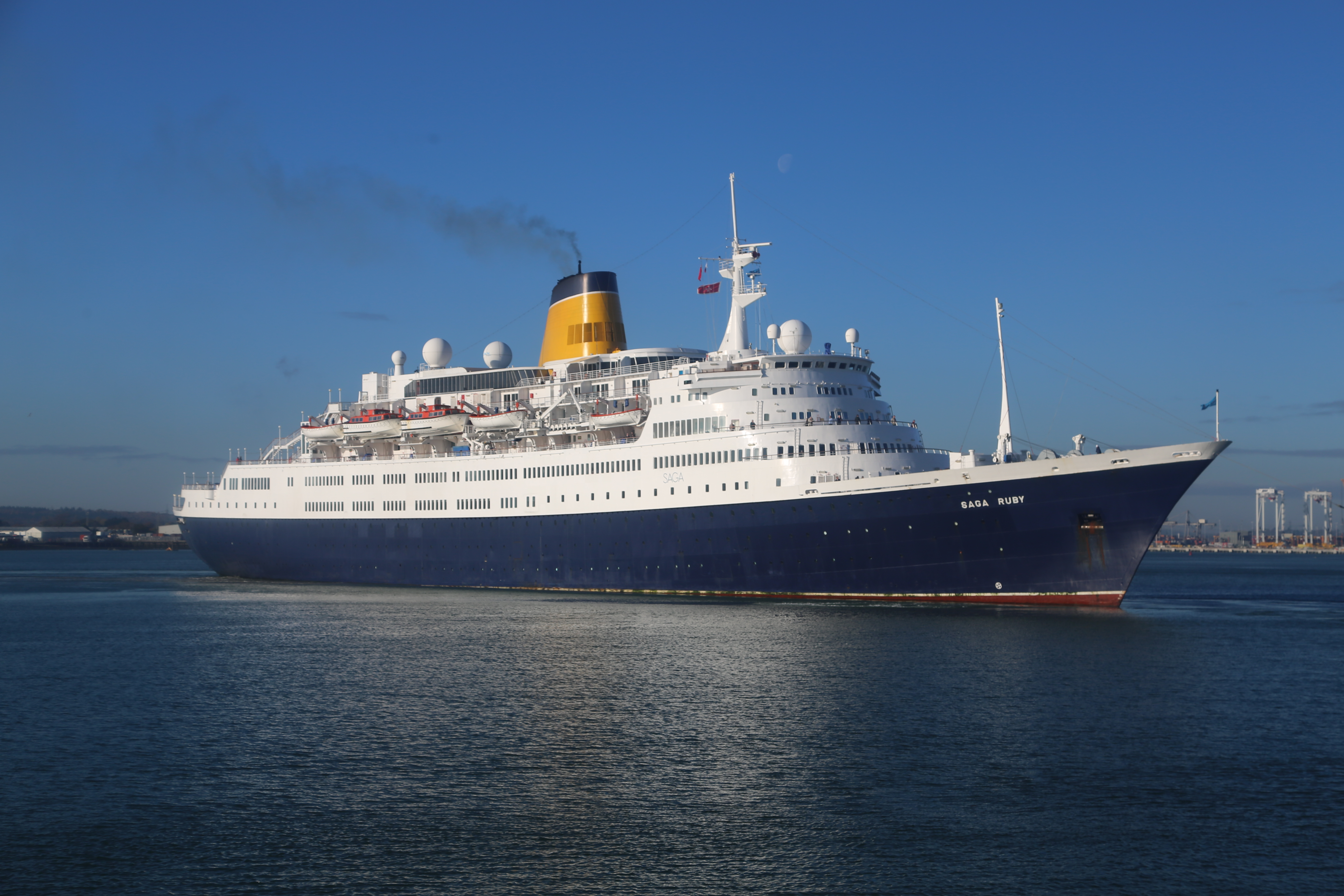 Photo of saga ruby docking in Southampton in 2013. Couple of tug involved but one is behind the ship and the other is out of frame